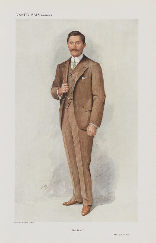 Men of the Day No.1225: Caricature of The Marquis of Bute. Caption reads: "The Bute"